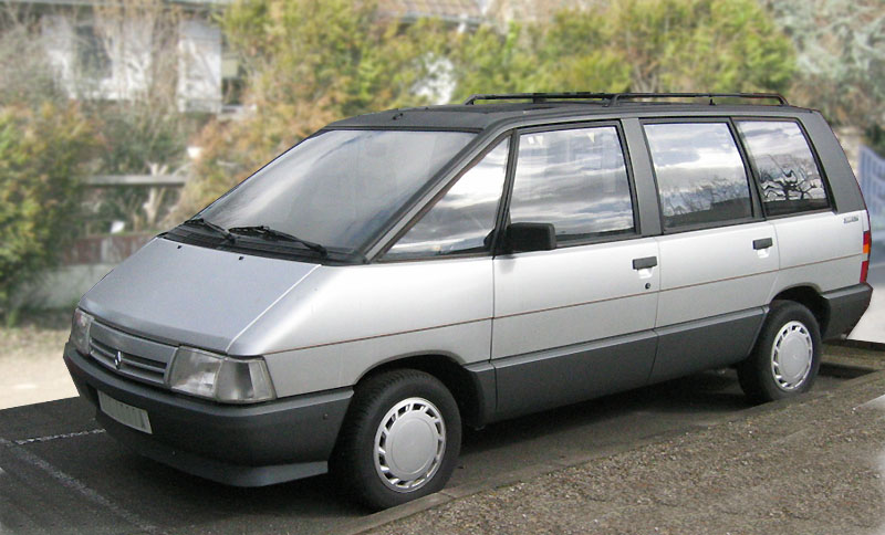 photo of the Renault Espace I, 1988-1991, Type J11